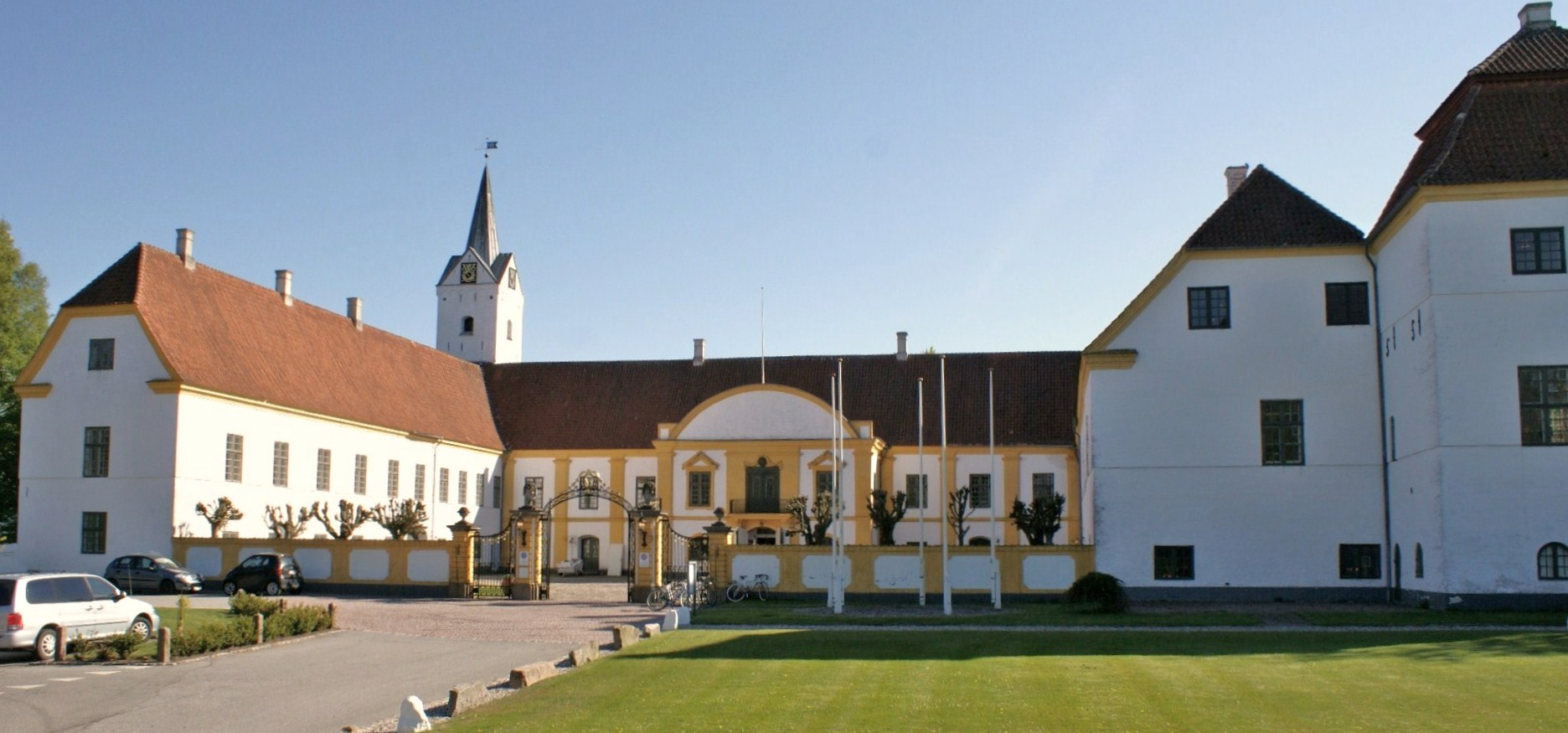 Dronninglund Castle in the north of Jutland